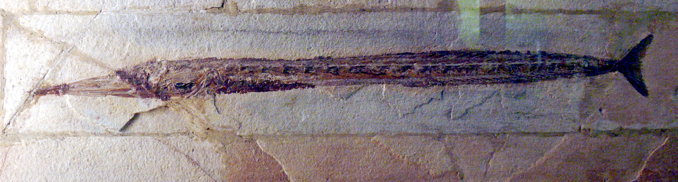 Blochius longirostris from the Eocene, Monte Bolca, Italy